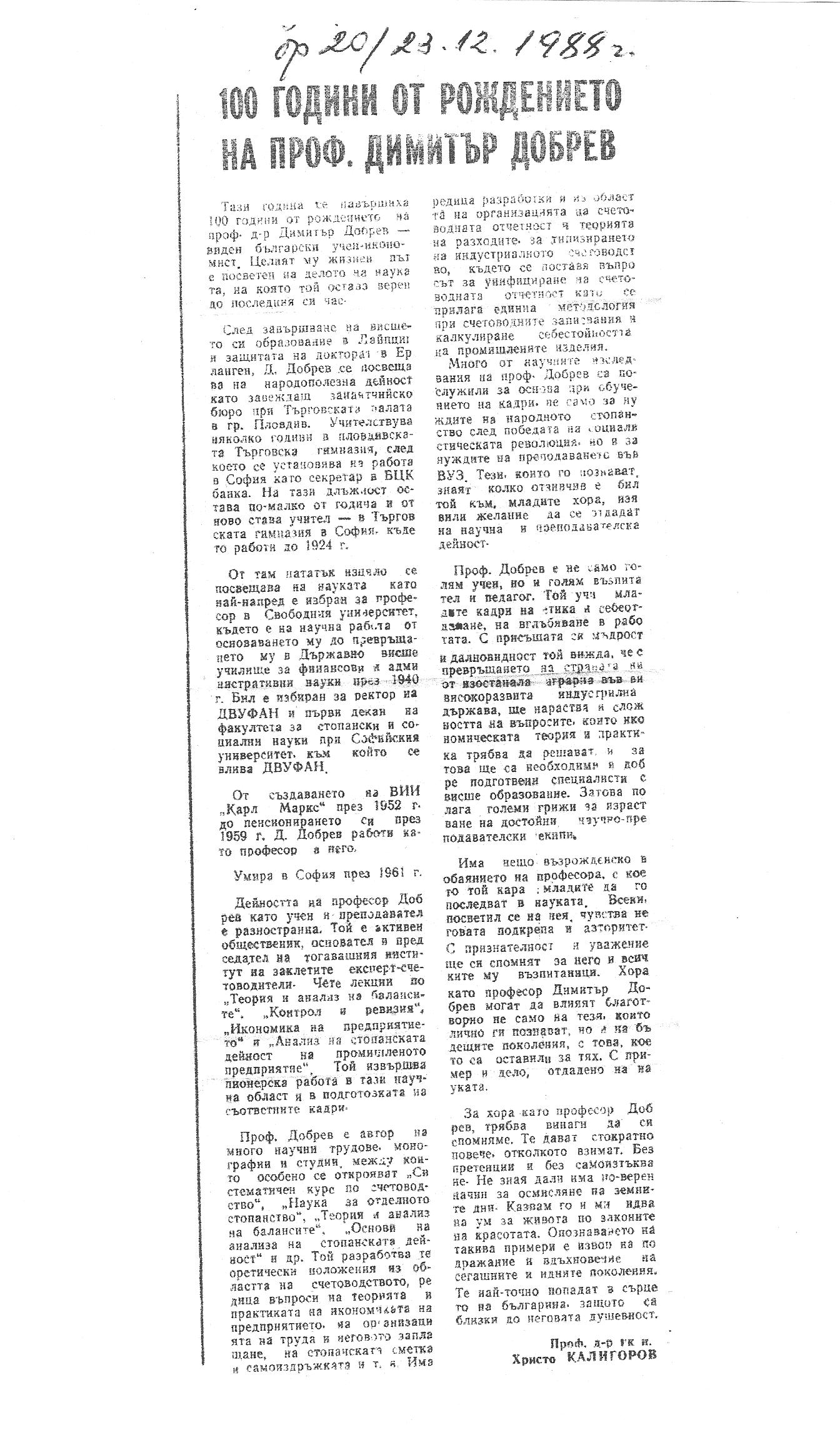 Professor Christo Kaligorov, "100 years from the birth of Prof DDobrev" newspaper "Economist, Sofia, 23.12.1988, issue 20